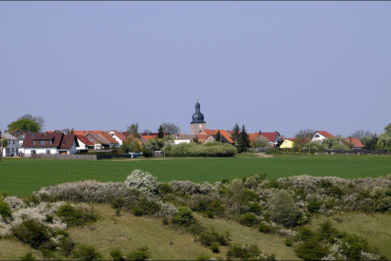 View on Gossel, Ilm-Kreis, Germany